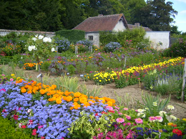 Flower garden of the Chateau de Bouges